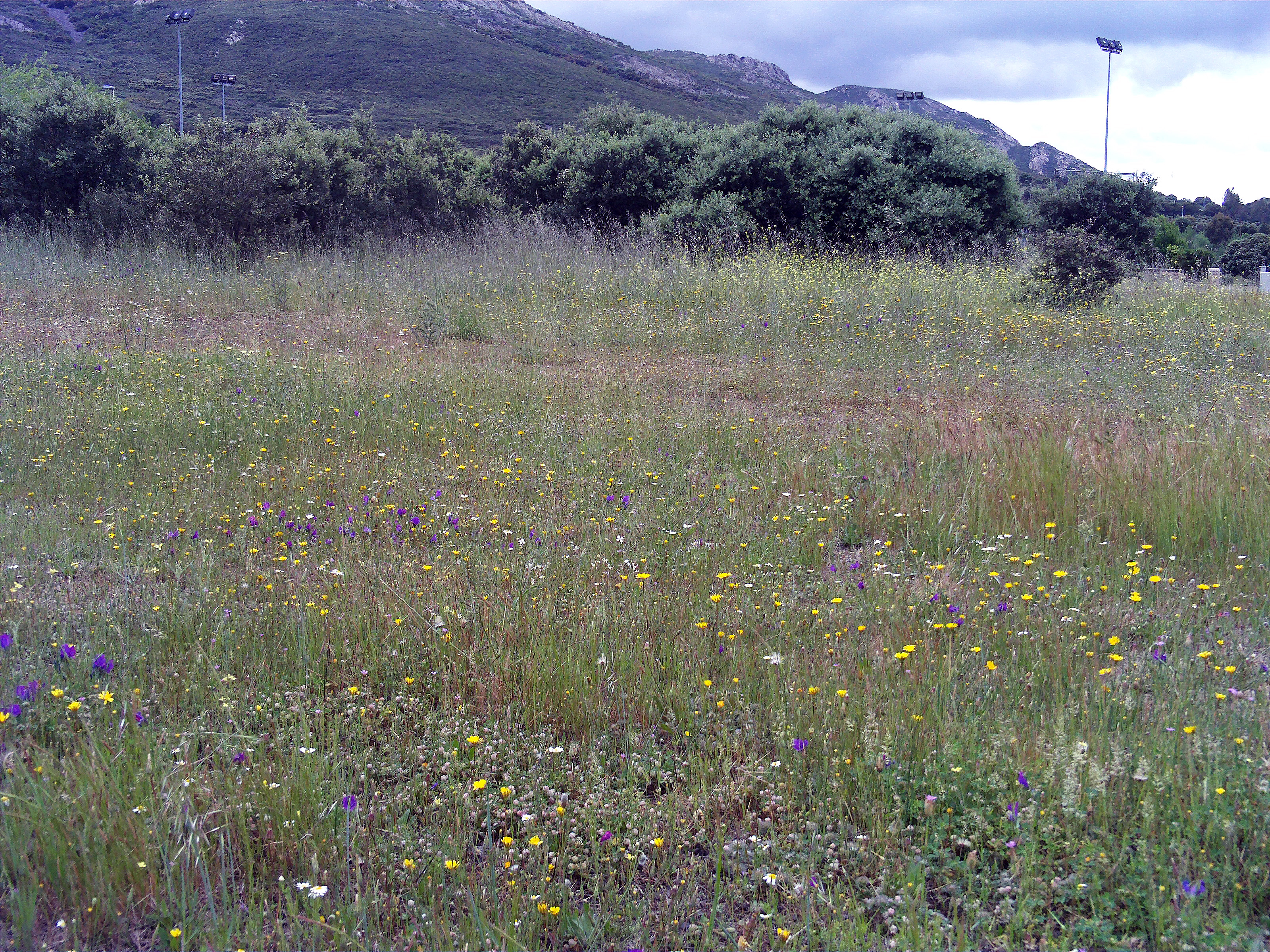 Mediterranean prairie with wildflowers — Dehesa Boyal de Puertollano park, Puertollano, Spain. May, 23, 2008